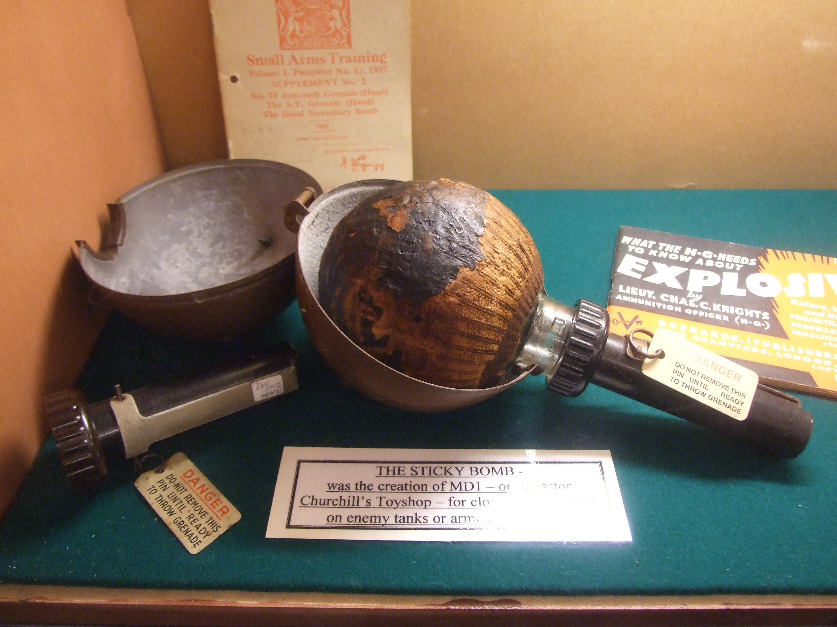 Parham Airfield Museum, Parham airfield, Suffolk. Museum of the British Resistance Organisation: a sticky bomb.